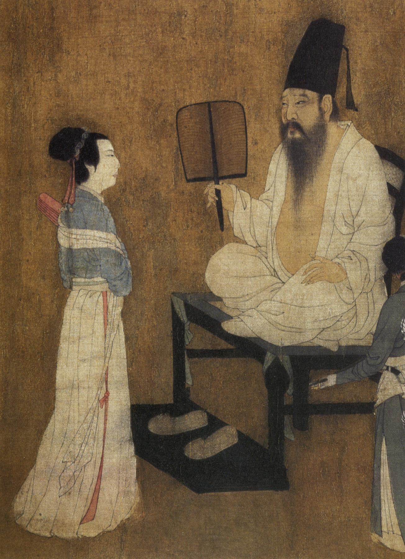 Night Revels